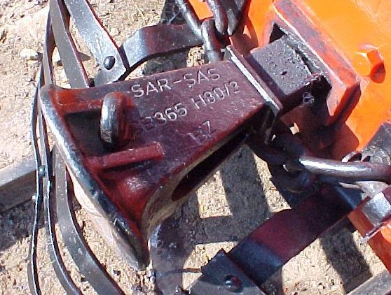 Johnston link-and-pin coupler on Class NG G11 no. 55